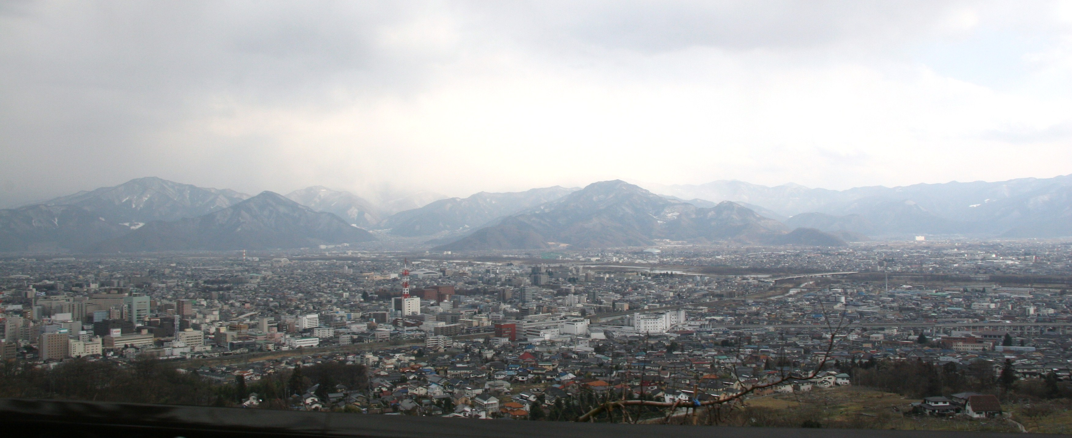 View of Nagano City from Mt. Asahiyama